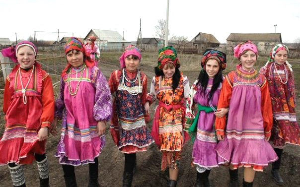 Mordovia Zubu district girls Мокшень: Зубу районцта стирьхне